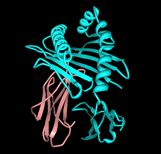 Rendering PDB:2HLA of empty A68 with (A*6801[cyan]-B2M heterodimer[rose]). From: SPECIFICITY POCKETS FOR THE SIDE CHAINS OF PEPTIDE ANTIGENS IN HLA-AW68 published in: Garrett, T.P., Saper, M.A., Bjorkman, P.J., Strominger, J.L., Wiley, D.C. (1989) Specificity pockets for the side chains of peptide antigens in HLA-Aw68. Nature 342: 692-696